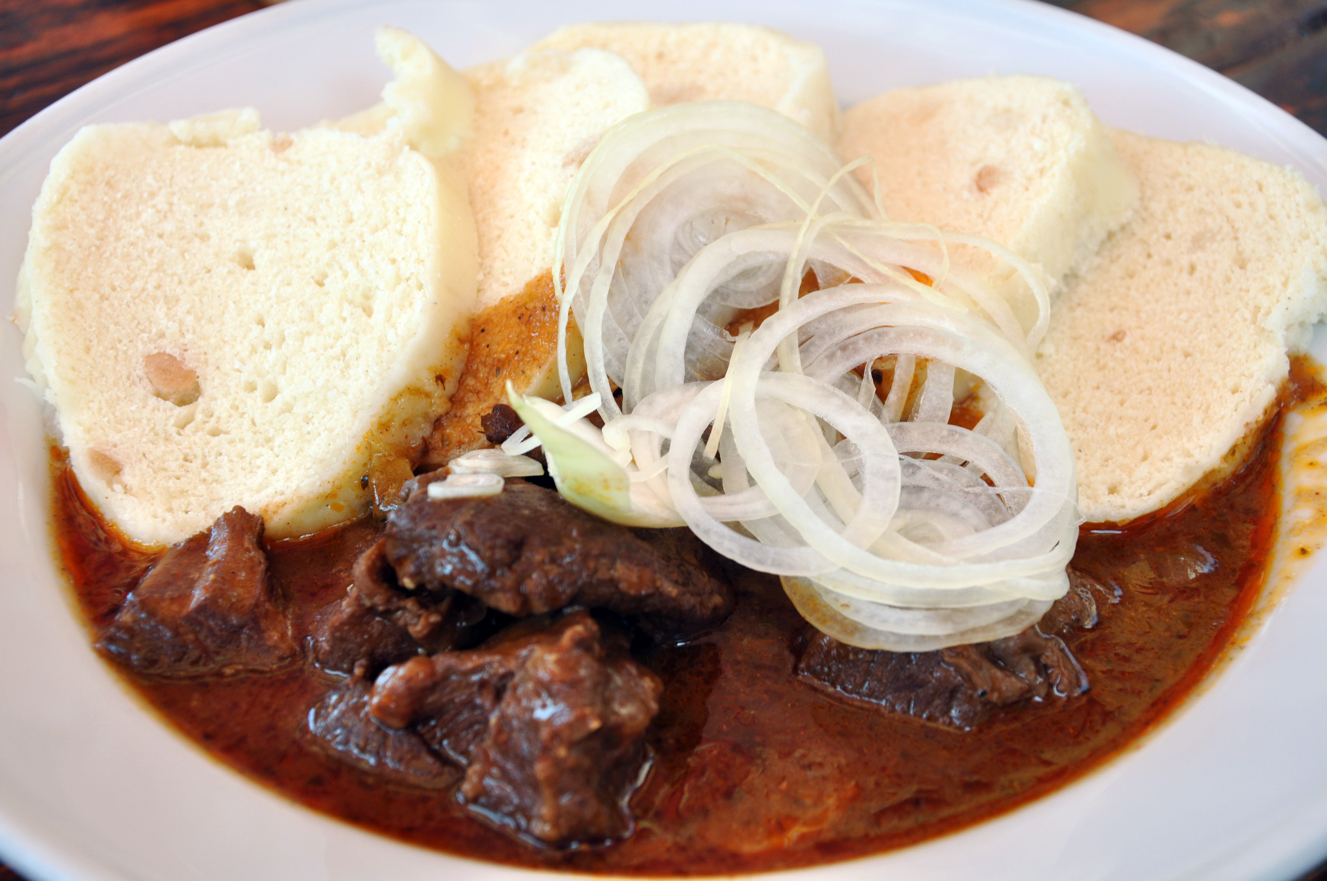 Classic Vienna-style beef goulash with flour dumplings